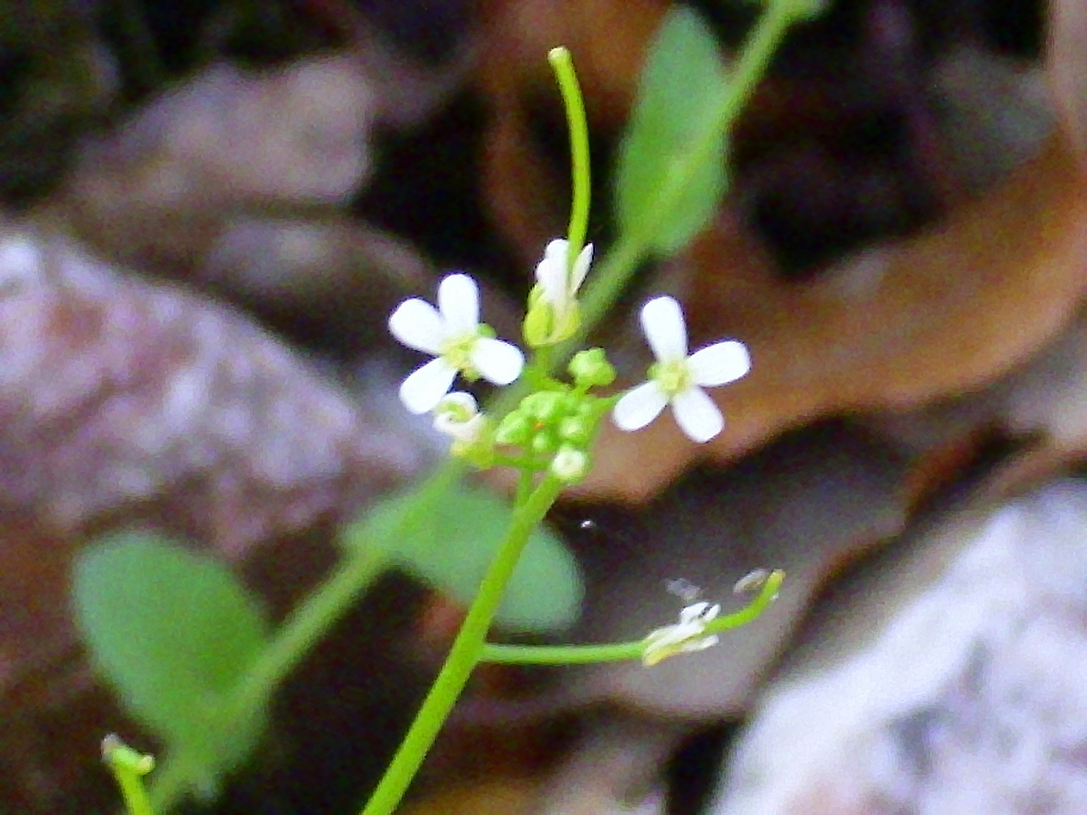 Arabis auriculata flowers, Sierra Madrona, Spain